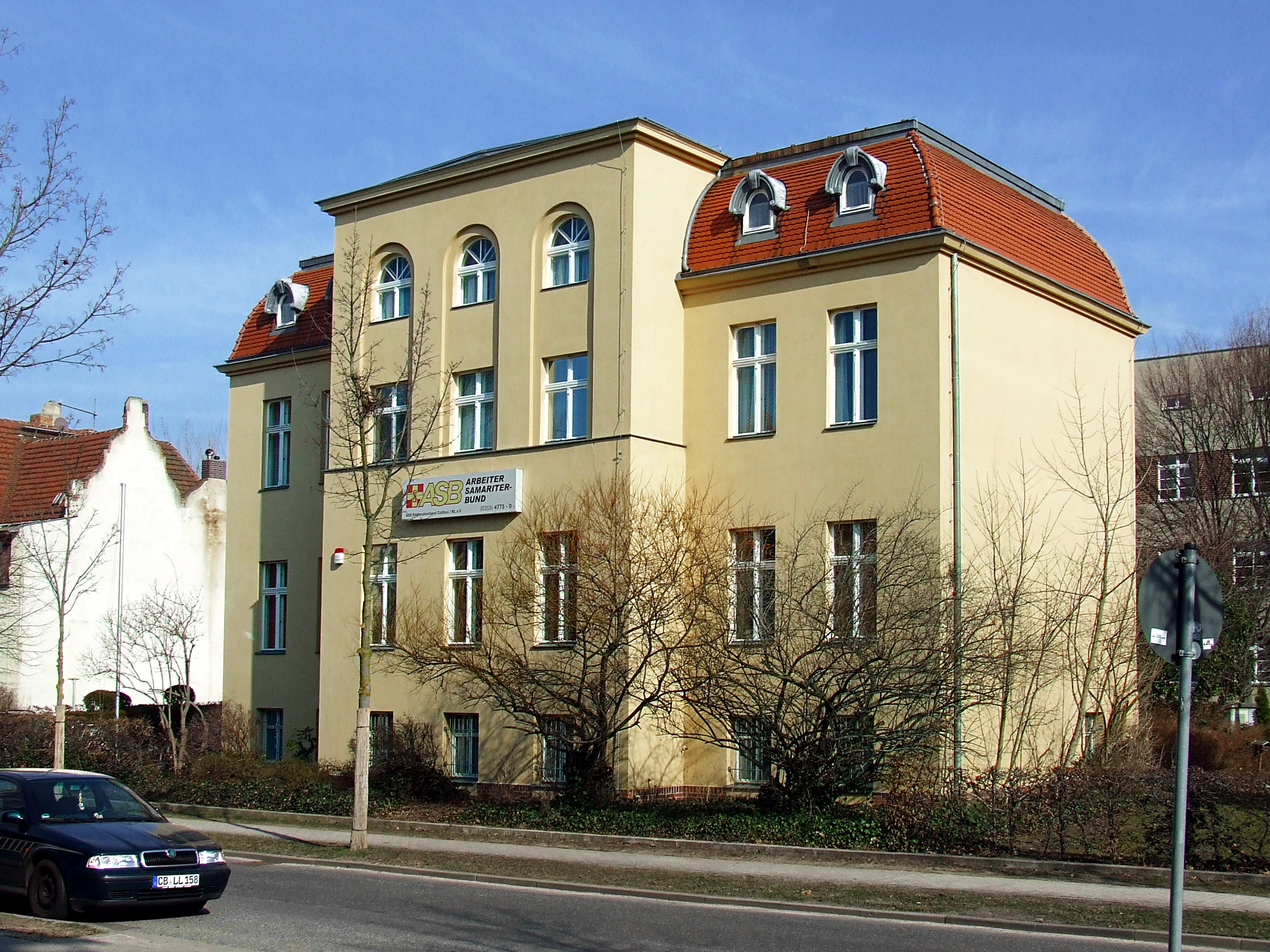 Cultural heritage monument Bautzener Straße 42 in Cottbus-Spremberger Vorstadt.